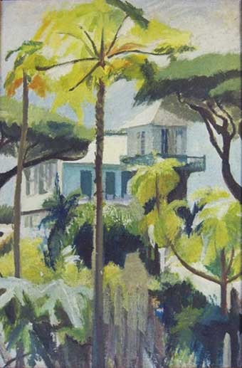 "Main Street, Georgetown" by Leila Locke. Acrylic on canvas stretched over board, 73 x 50cm, painted by Leila Locke c.1968, Guyana